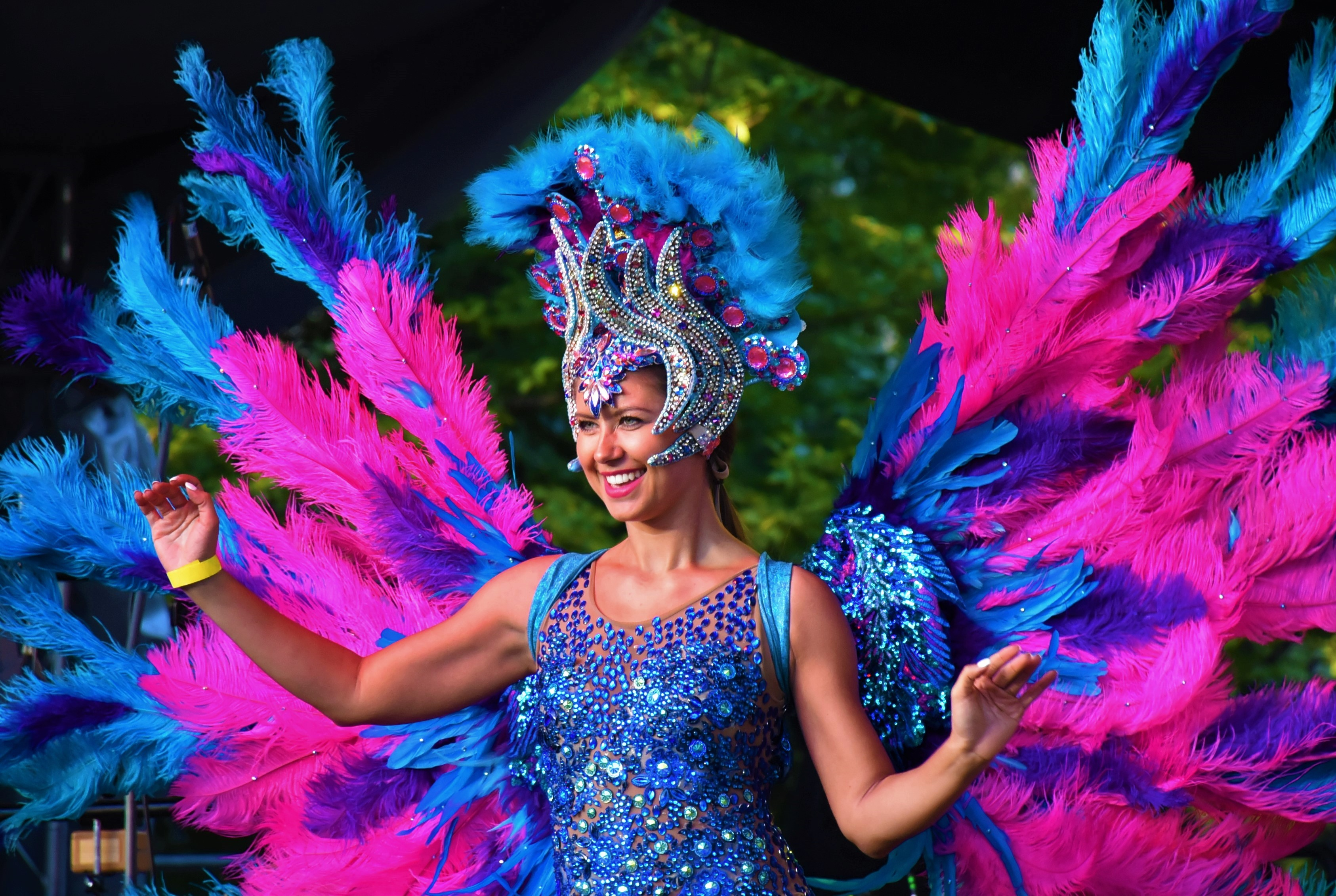 Veronika Lálová, Czech dancer